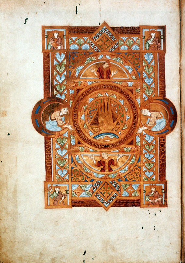 Uta Codex: Hand of God Ottonian manuscript ca. 1020 CE Munich, Staatsbibliothek Ms. Clm.13601, folio 1v